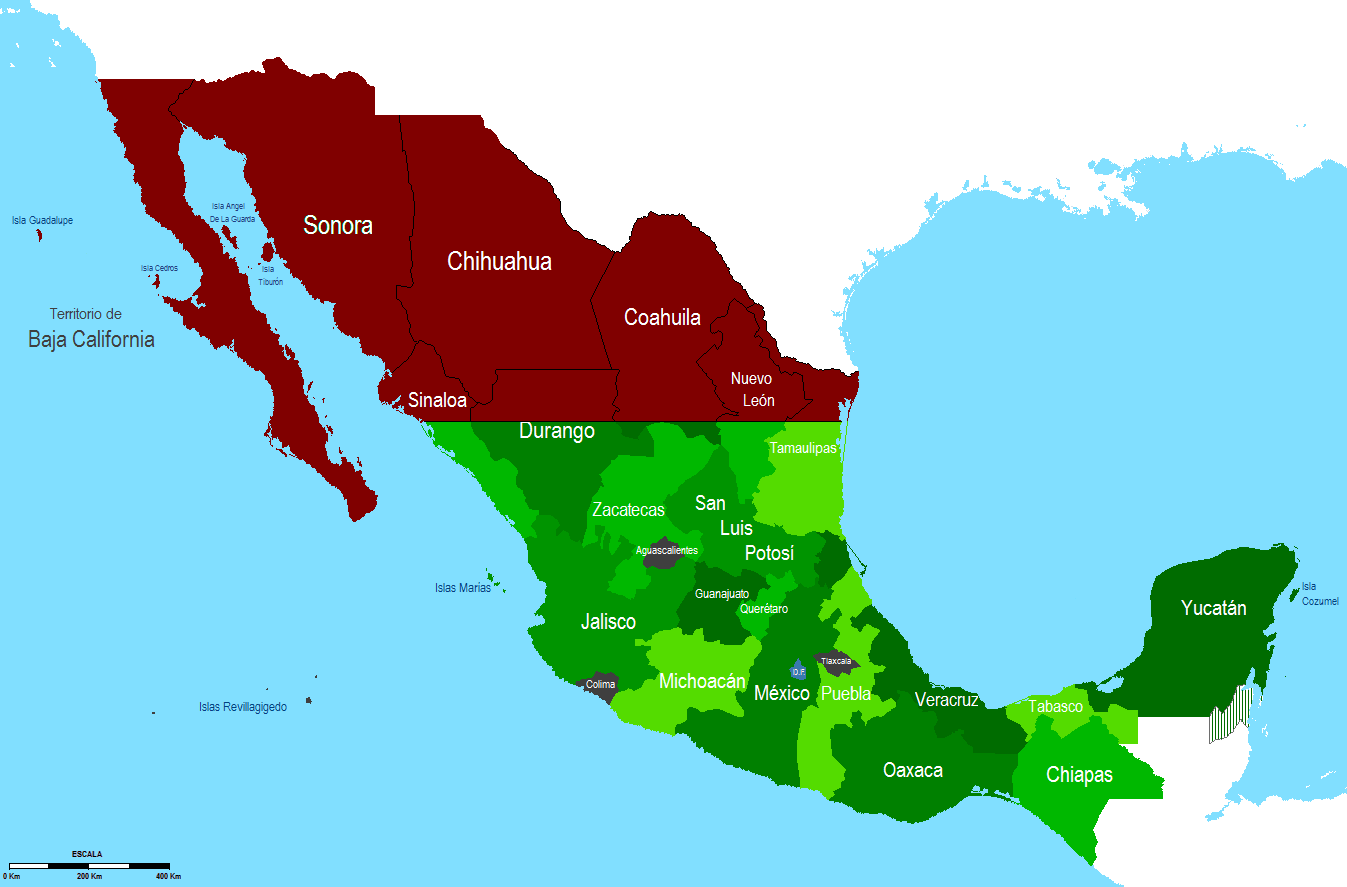 Map Of Mexico showing the original offer to buy from United States to Mexico via Gadsden Purchase